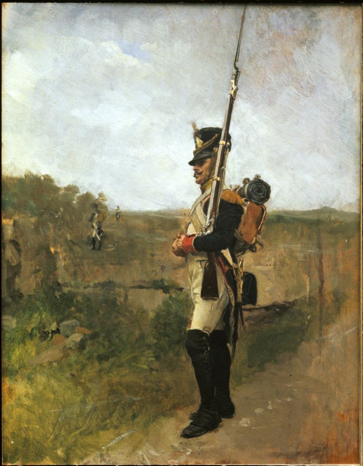 The sentry (La vedette) by Enest Meissonier depicts a voltigeur of the French Line Infantry of the Napoleonice period.